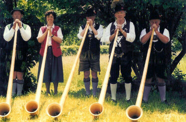 'Alphorn, D' Dieß'ner alphorn players.